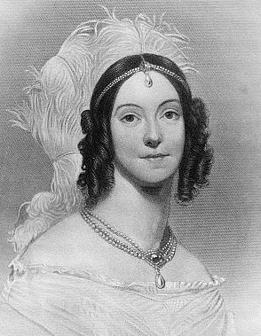 SINGLETON, ANGELICA. DR. MRS. ABRAHAM VAN BUREN